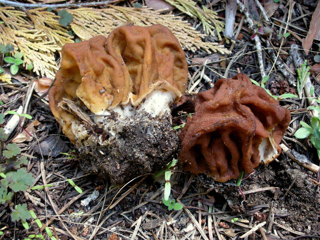 Gyromitra gigas (Krombh.) Cooke Location: Yosemite National Park, California, USA Observation Notes: Found along the South Fork Tuolumne River.Elevation approx. 4350 ft.37 degrees 48.686’119 degrees 51.390’Growing in a relatively open area with cedar and D. fir nearby.The limited number of spores I measured(7) were a little larger than normally reported. They ranged from 31.6-36.8 X 17.1-18.9 microns. Also did not see any oil droplets(in congo red). For more information about this, see the observation page at Mushroom Observer.